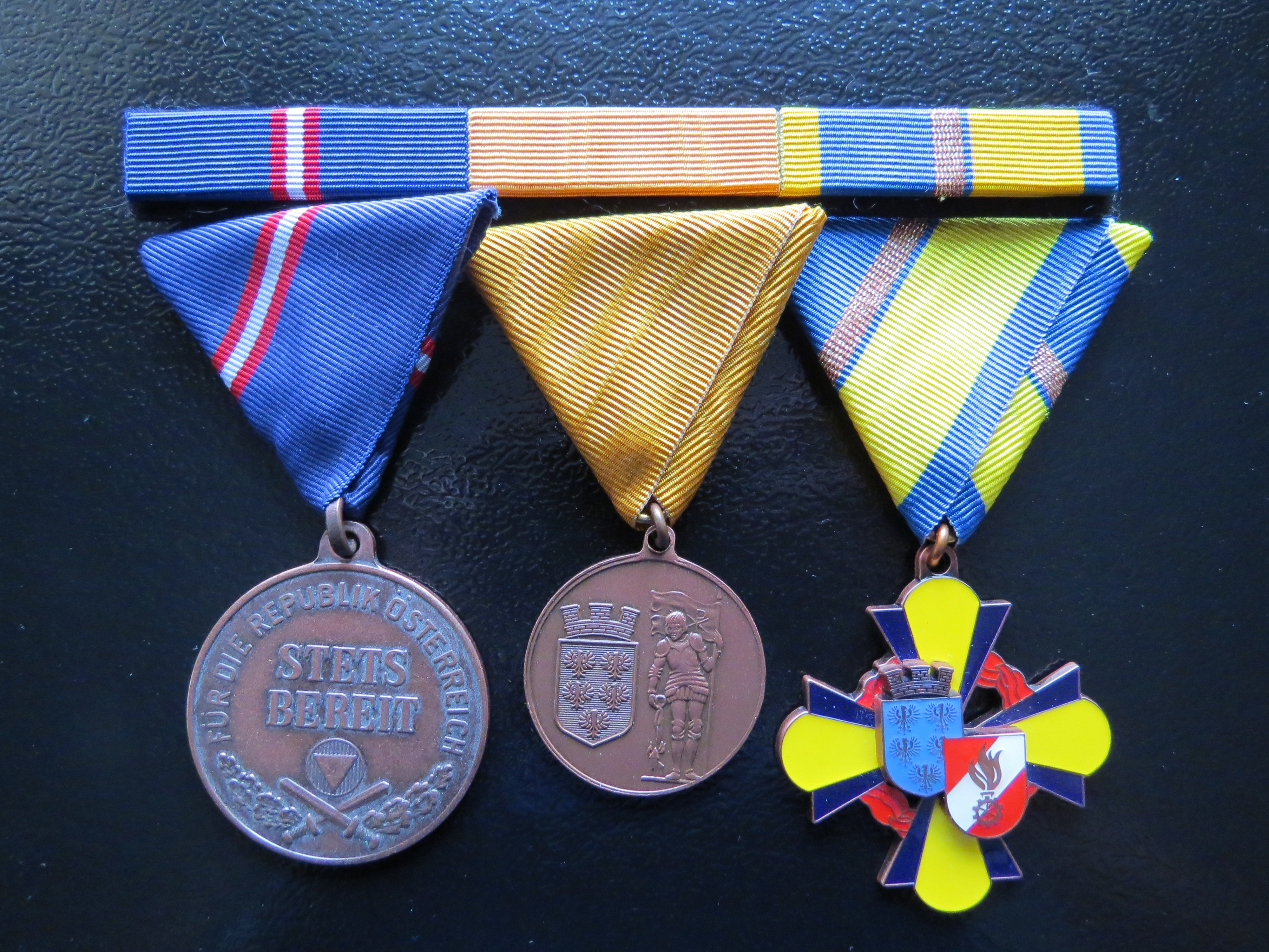 Awards of a firefighter in Lower Austria